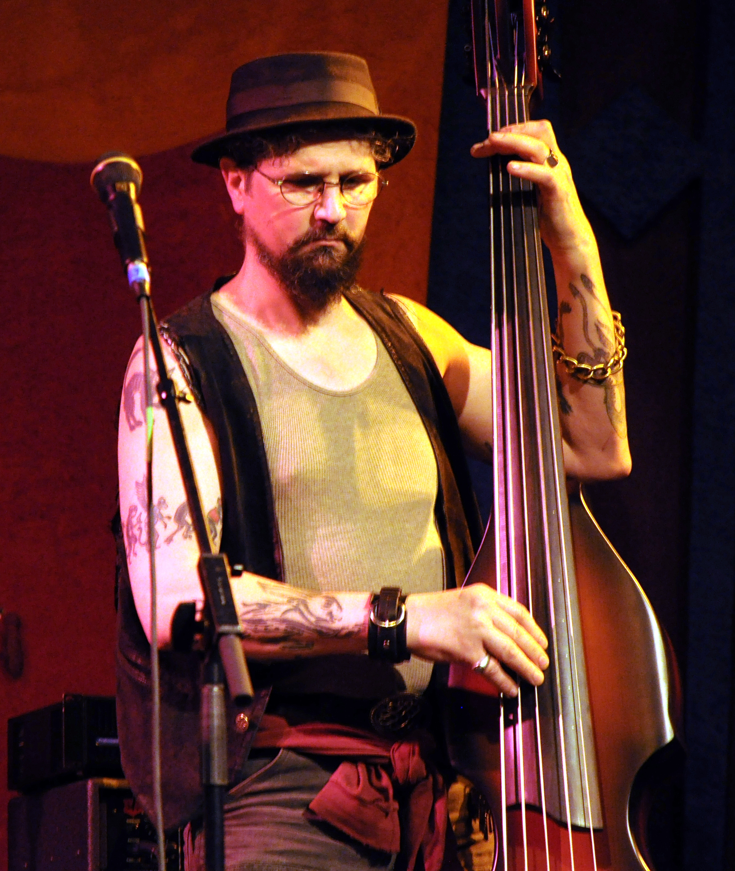 Joe Albanese, a.k.a Meshugener Joe, playing at a tribute to Ron Davies, Hale's Palladium, Seattle, Washington, USA. Joe was later one of the victims of the shootings at Seattle's Café Racer.